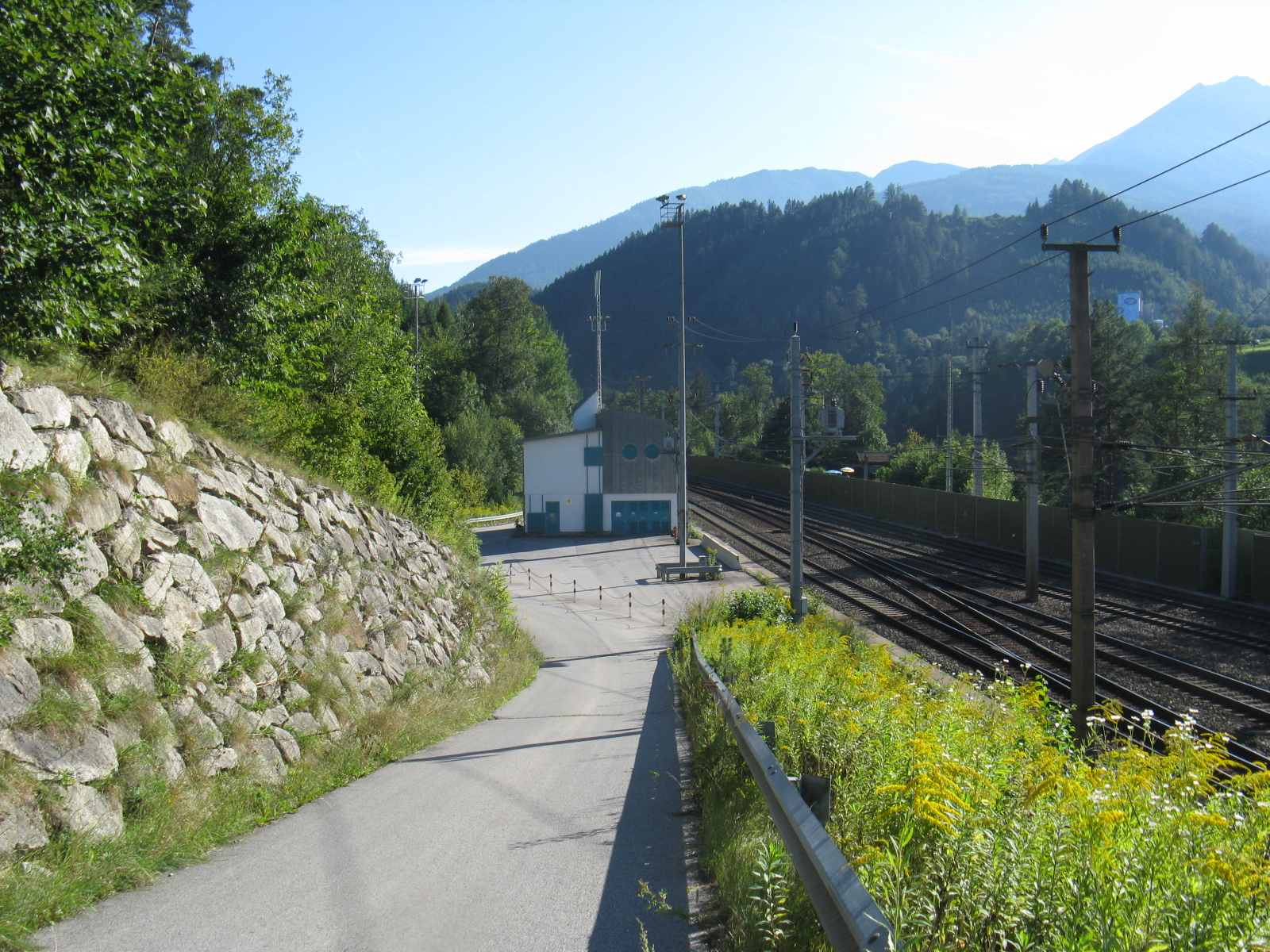 control room and tunnel rescue site at the south entrance of Inntal tunnel (part of Innsbruck bypass)